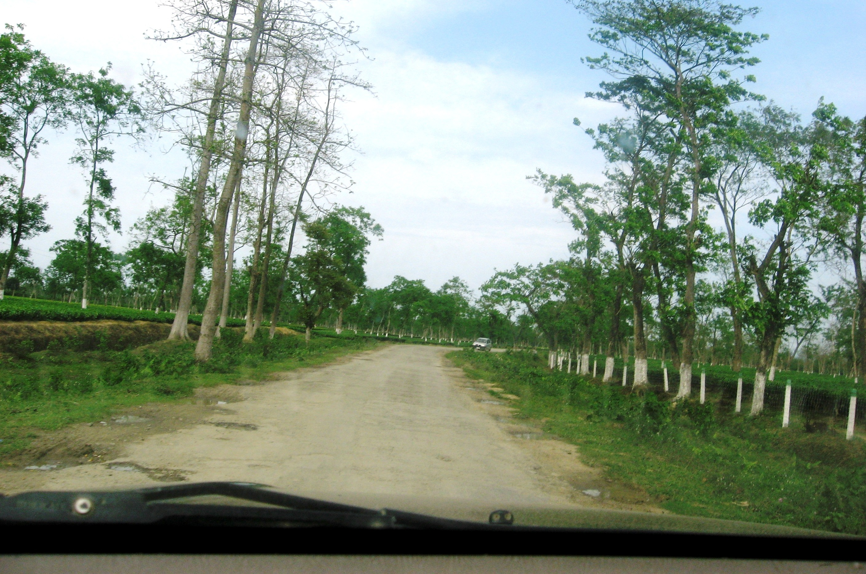 Aassam's road